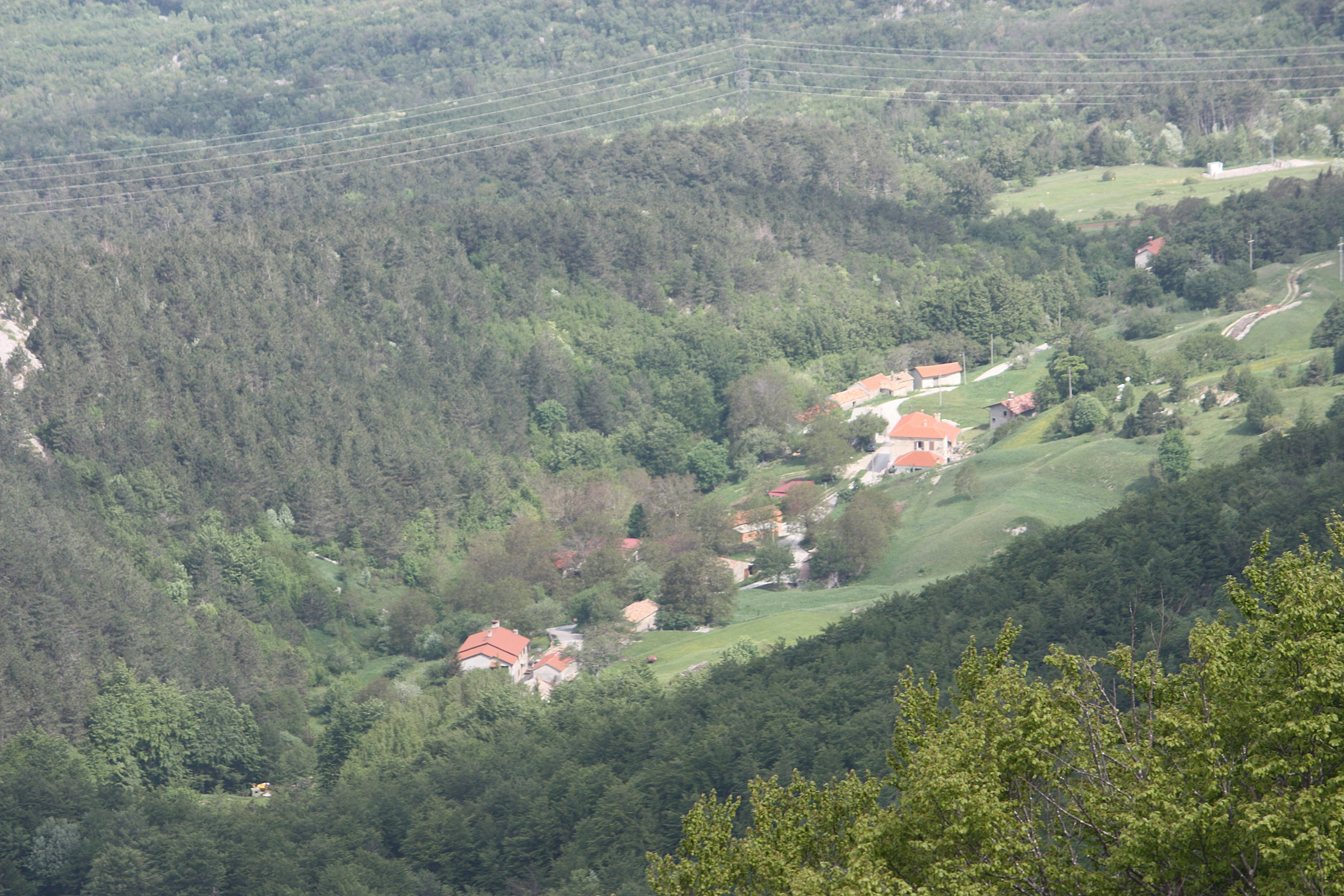 Vojak (mountain), view to Šušnjevica